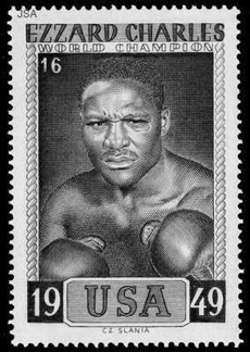 Ezzard Charles, in a private engraving by stamp engraver Czesław Słania. It is #16 in his series of world champion boxers engraved in stamp format. The stamp has only been produced privately and the text USA, is there to show Ezzard Charles' nationality.